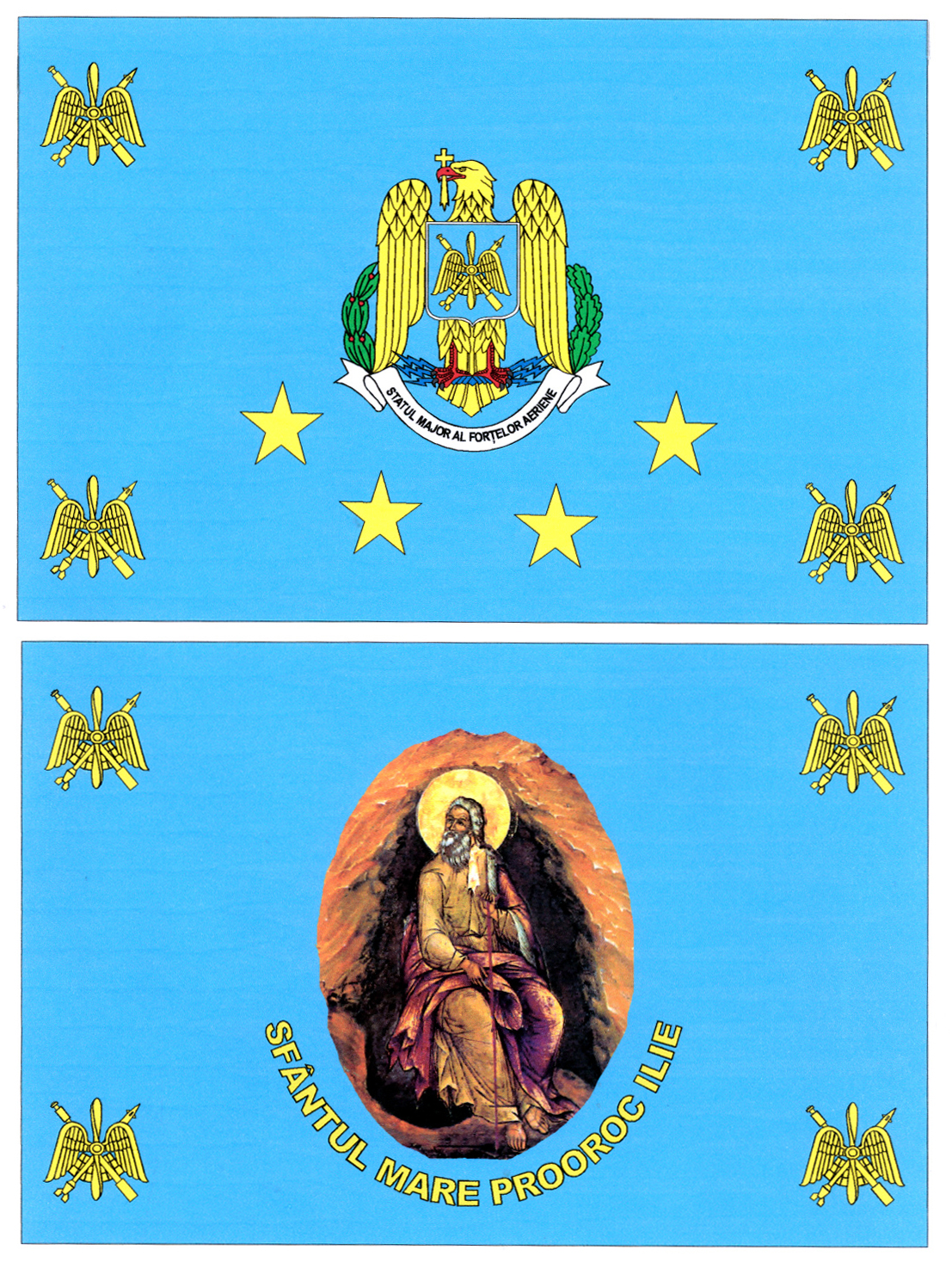 a scanned picture of both sides of the flag. taken from the online photo database of The Ministry of National Defense.